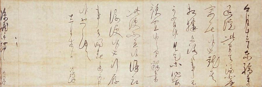 Letter written by Kokan Shiren, Kitamura Museum, Kyoto, Kyoto, Japan